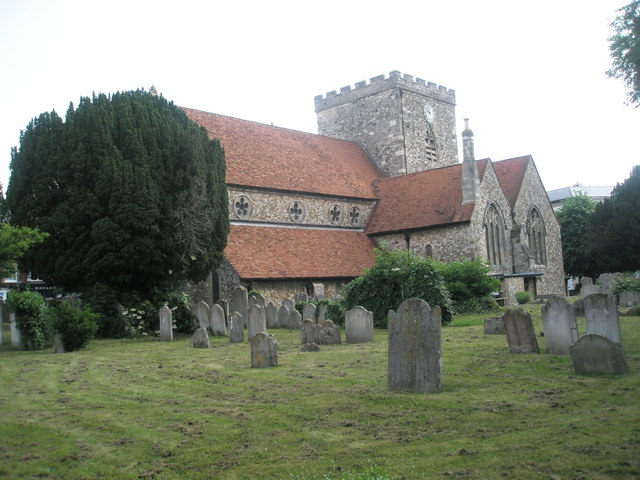 St Faith's Church as seen from Church Path, near to Langstone, Hampshire, Great Britain.